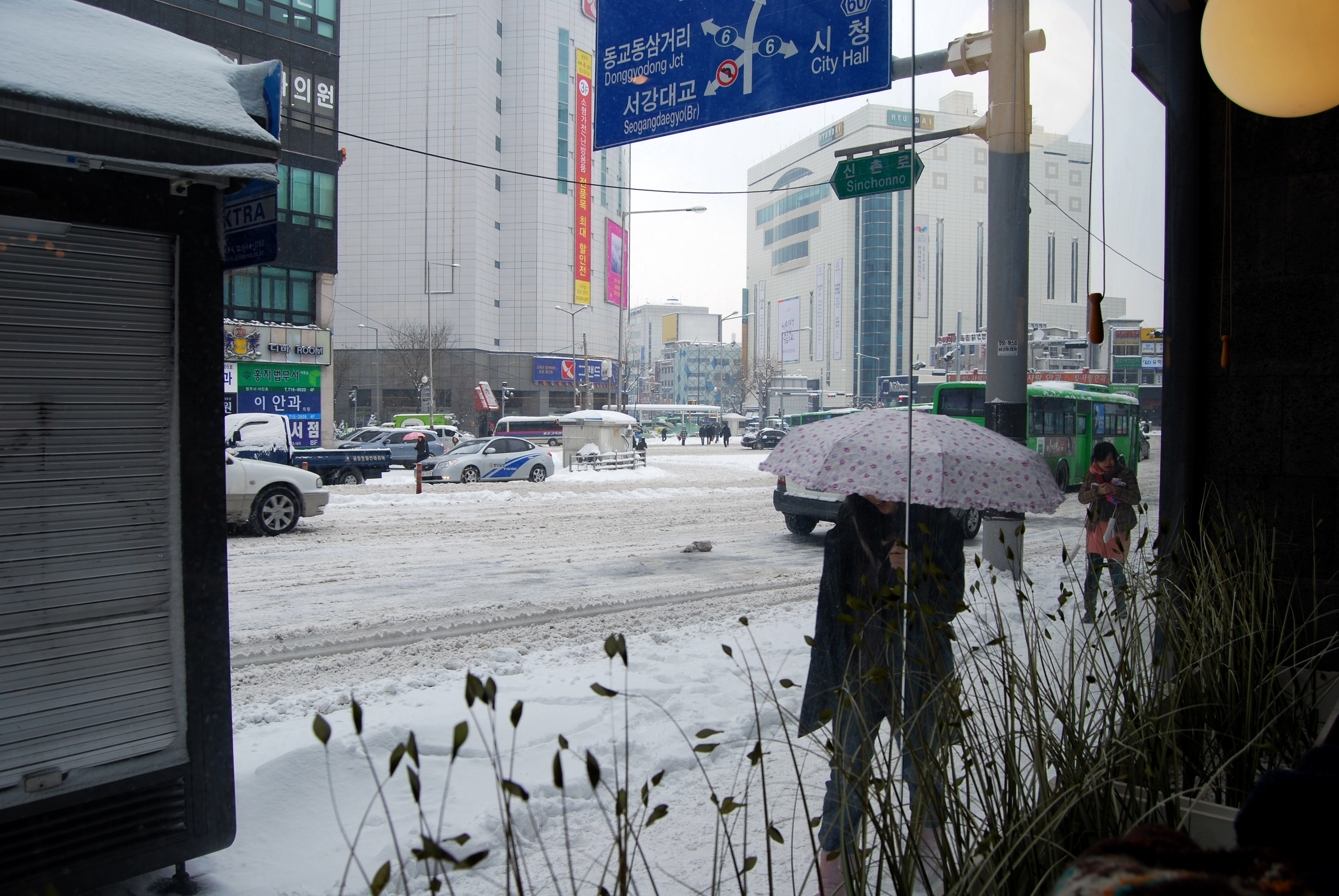 Heavy snow piled up the road in Seoul, 4 Jan. 2010.